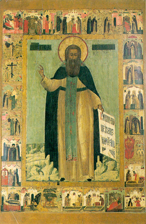 St. Stefan Mahrishskii